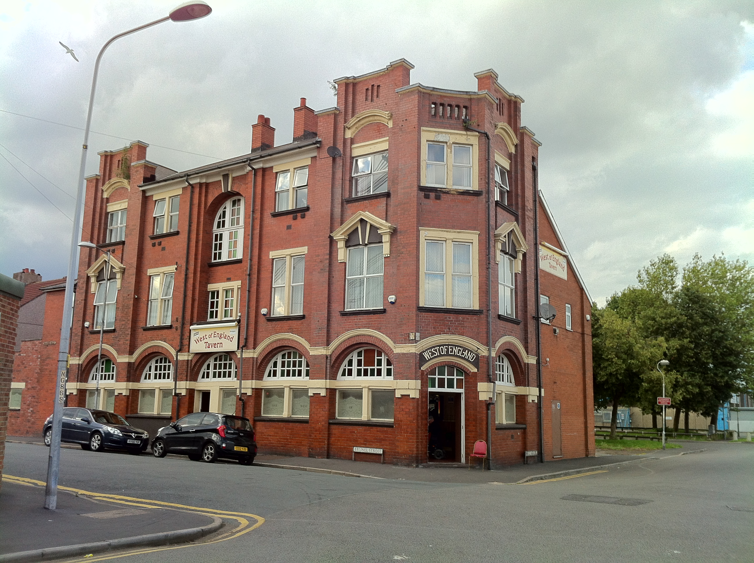 West of England Tavern at the junction of Brunel Street and Mill Parade, Newport, Monmouthshire